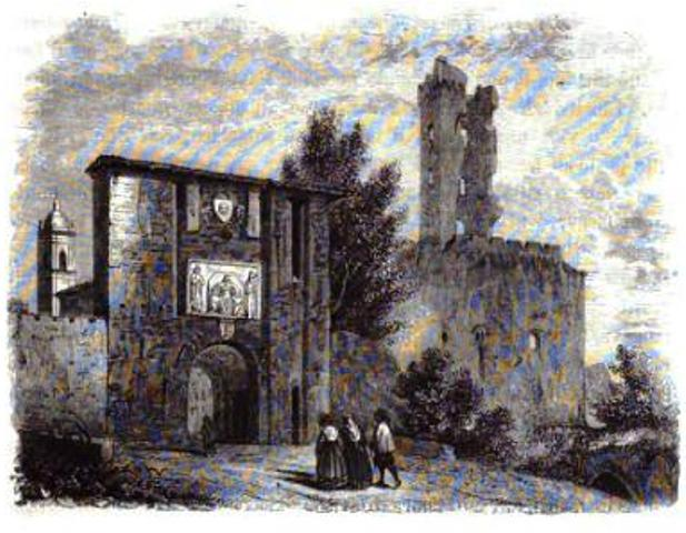 The most famous Italian historical romance,and the masterpiece of Alessandro Manzoni.